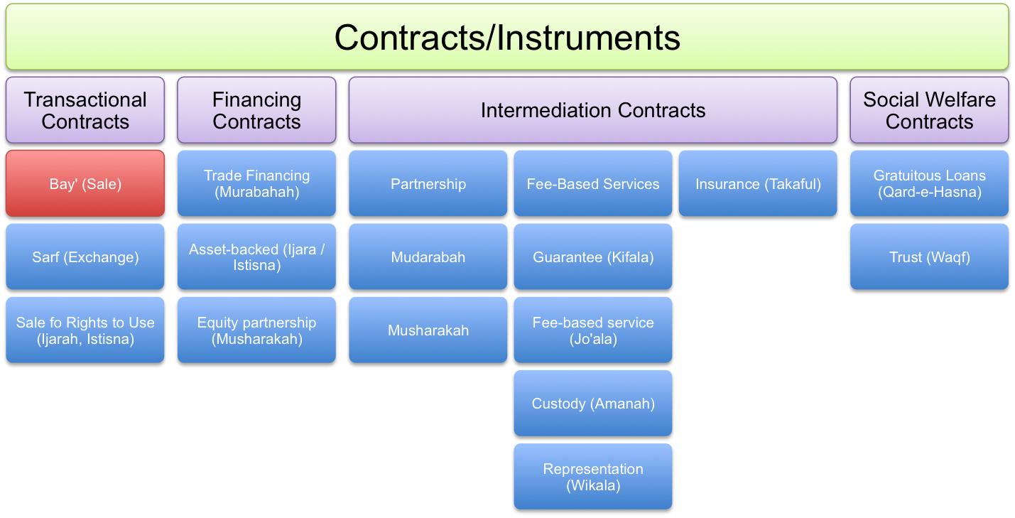 Type of contracts at sharia law